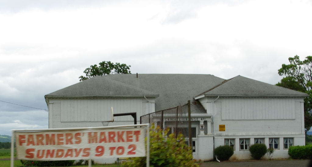 Rickreall, Oregon grange hall